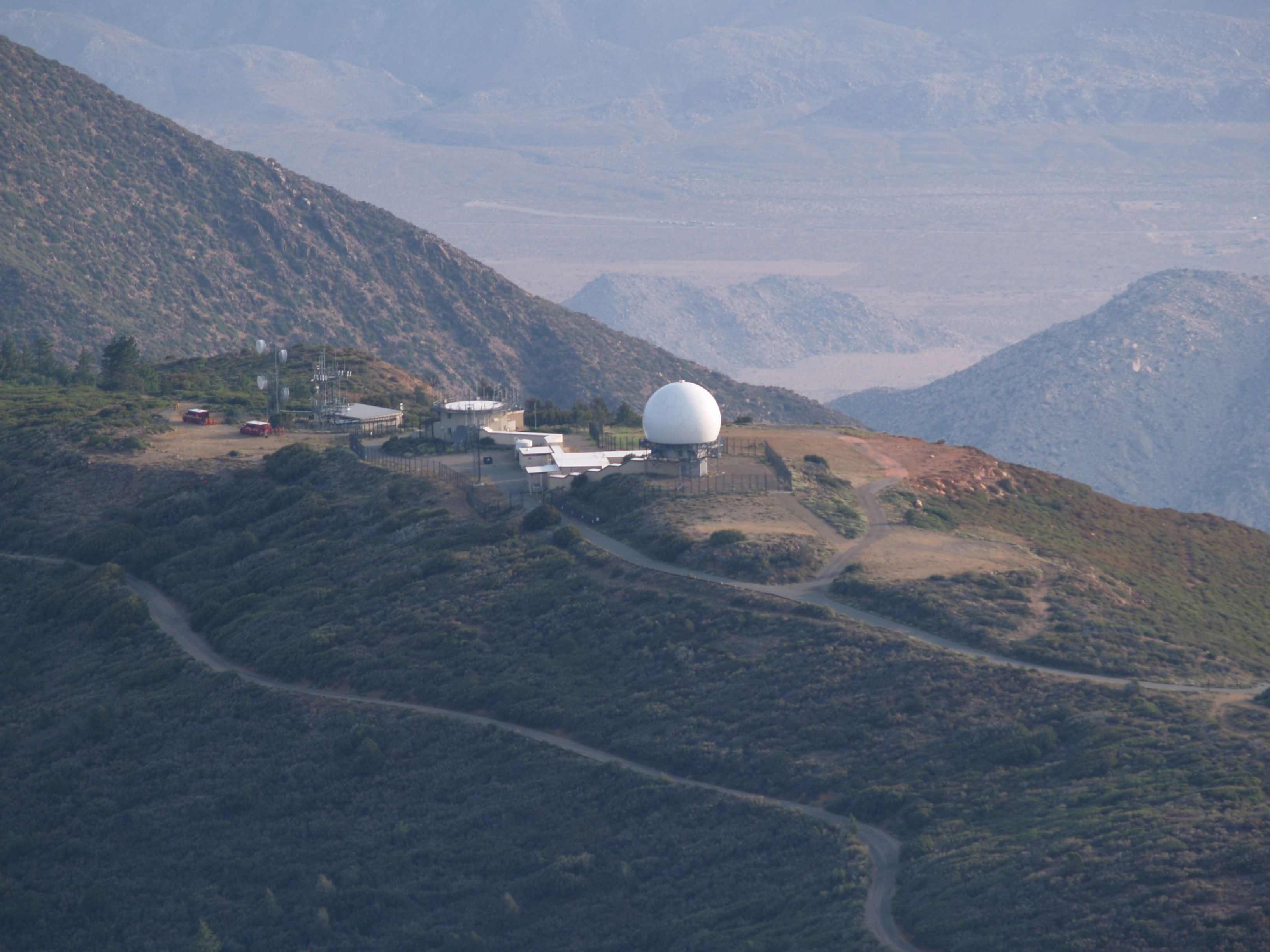 Photo of the Mt. Laguna FAA Station (formerly USAF Station) taken during the Chariot Fire. Two fire vehicles can be seen parked nearby to defend the area. Attribution to: Phil Konstantin